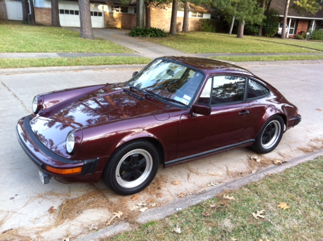 Original 1983 Porsche 911SC, last year of the Super Carrera.